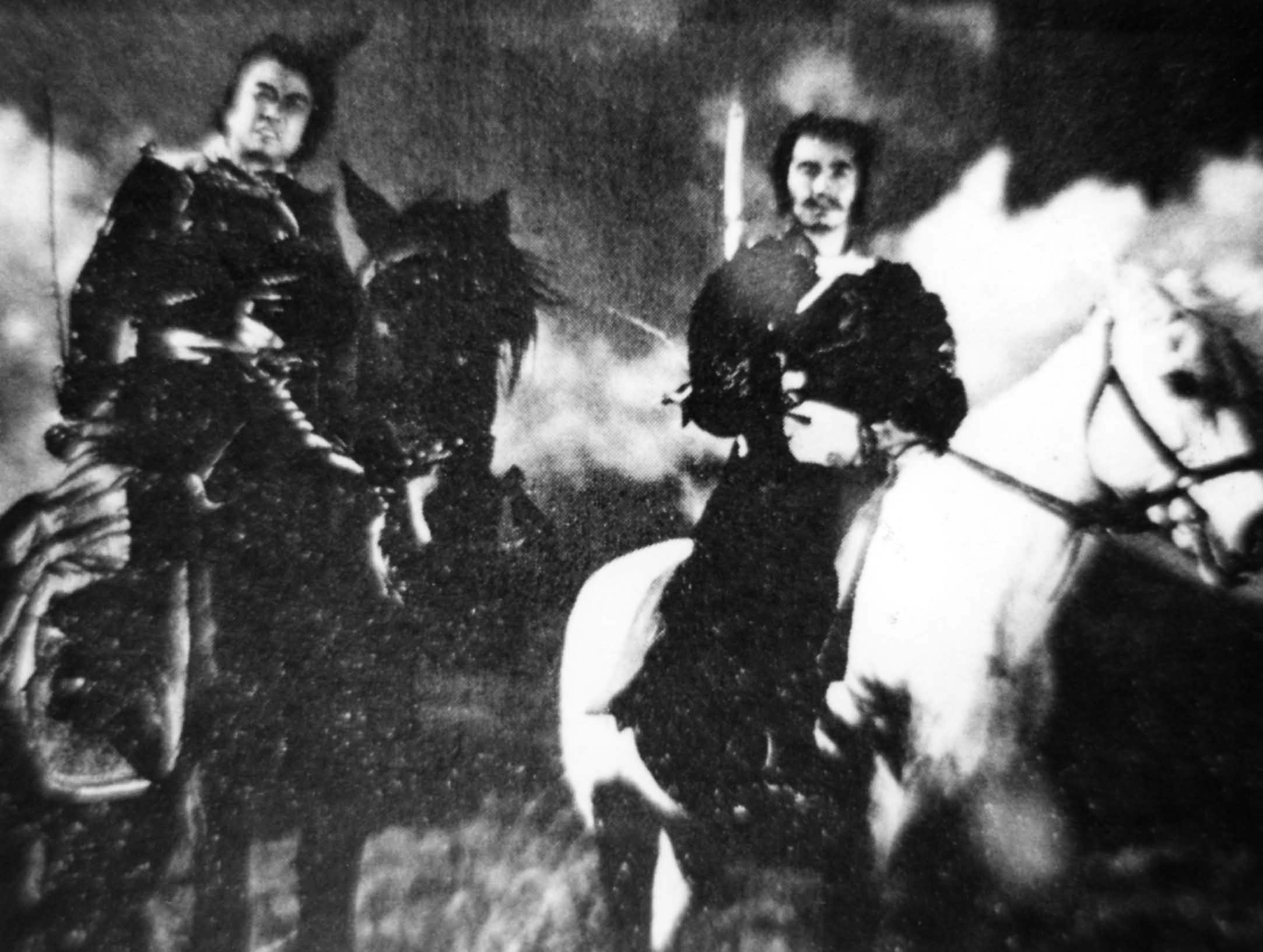 Scene from Sengoku guntō-den (戦国群盗伝) directed by Eisuke Takizawa - 1937